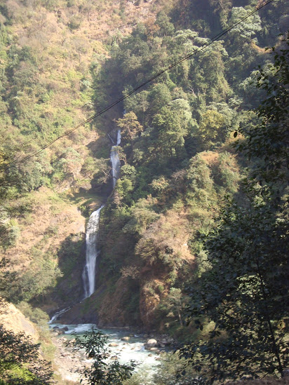 प्राकृतिक रुपमा भौगोलिक बनावटका कारणले नदी माथिबाट तल झर्नुलाई झरना भनिन्छ ।